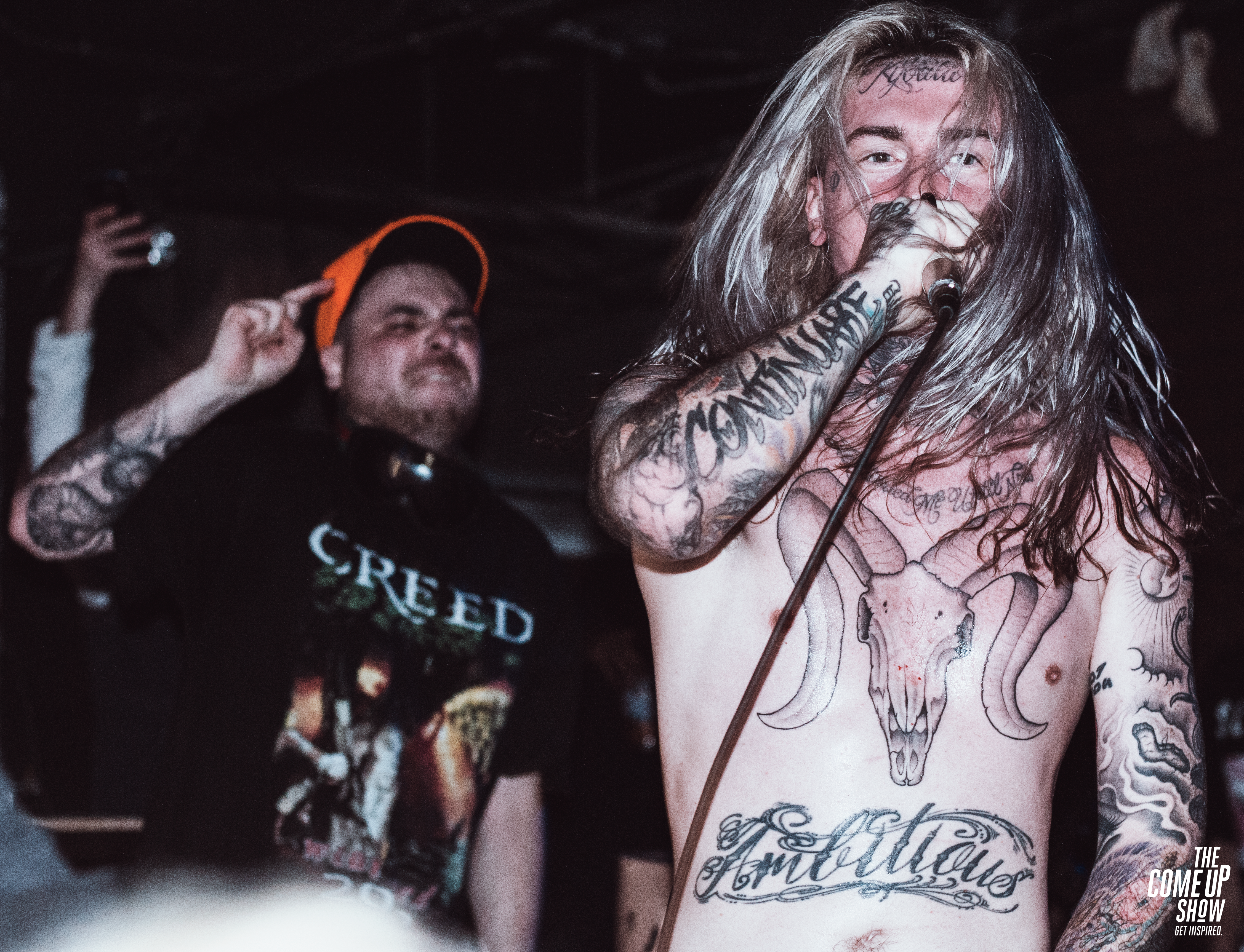 Shot at Adelaide Hall November 18th, 2017 Support from Wavy Jones Shot by Mac Downey (@mac.all.mghty)